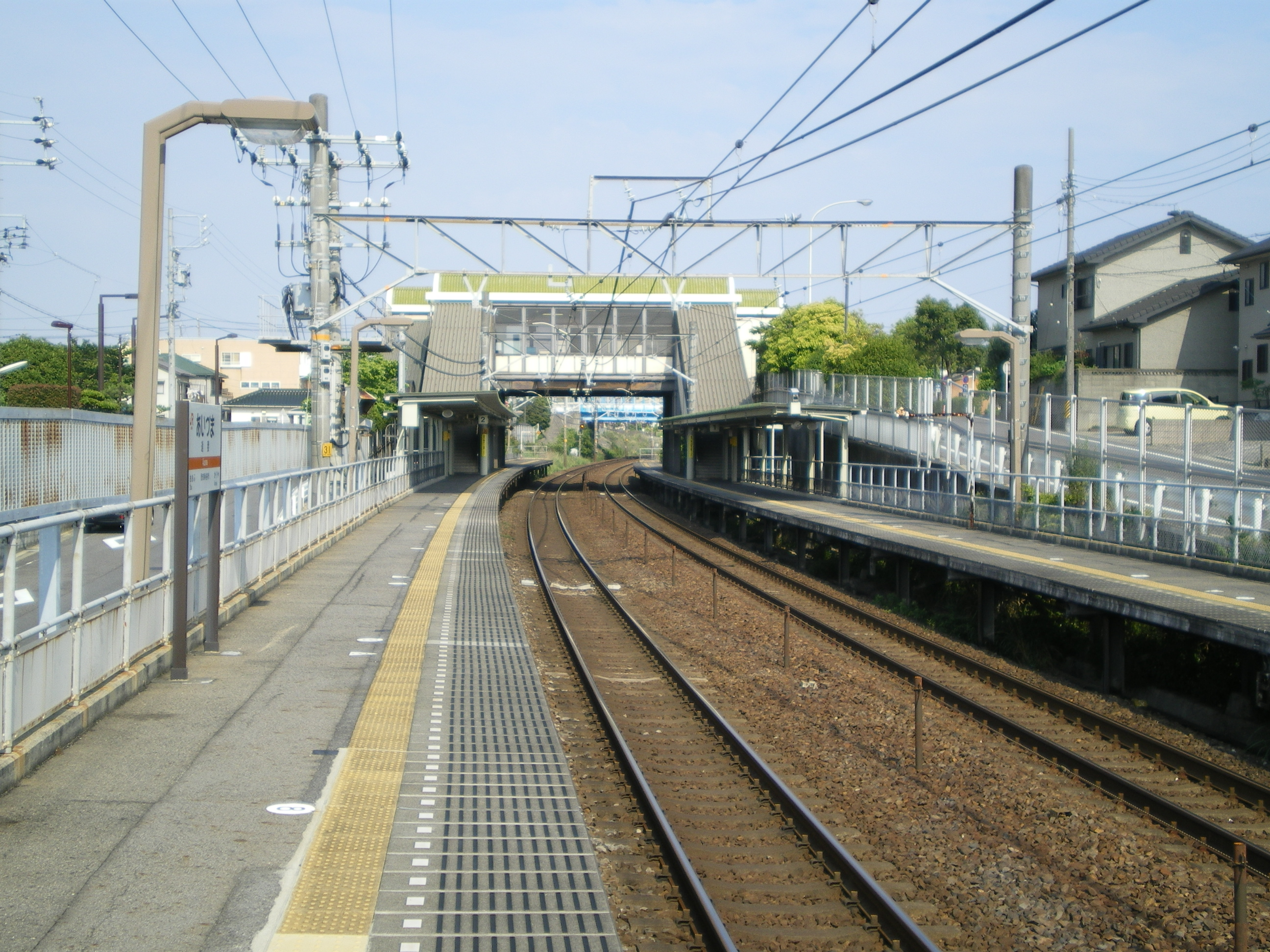 Central Japan Railway Tōkaidō Main Line Aizuma Station Platform